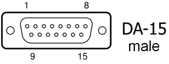 Image of DA-15 connector male pinout Correction of the pinout error in File:DA-15 DSubminiatures2.svg